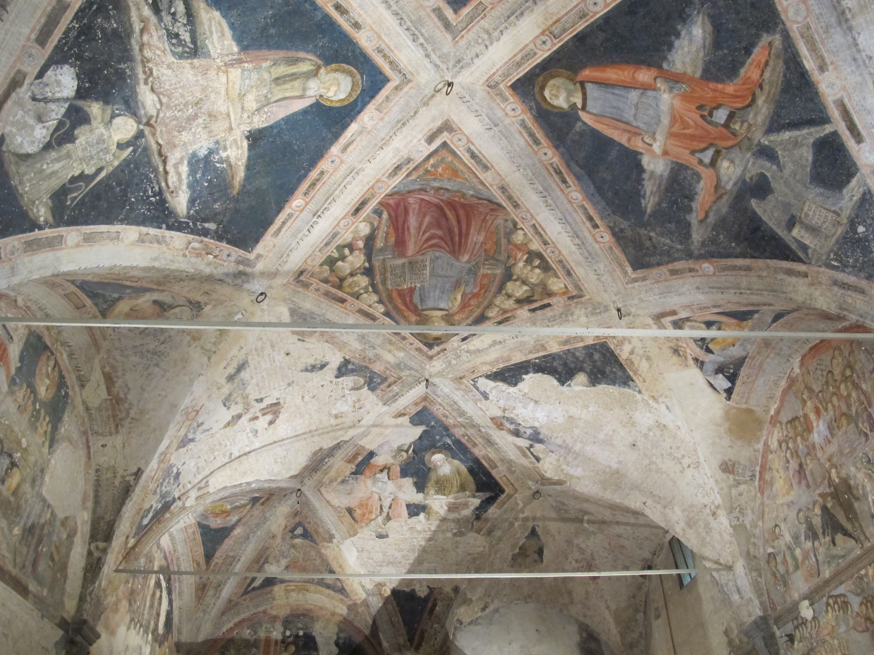 Santa Maria della Scala Hospital (Siena)